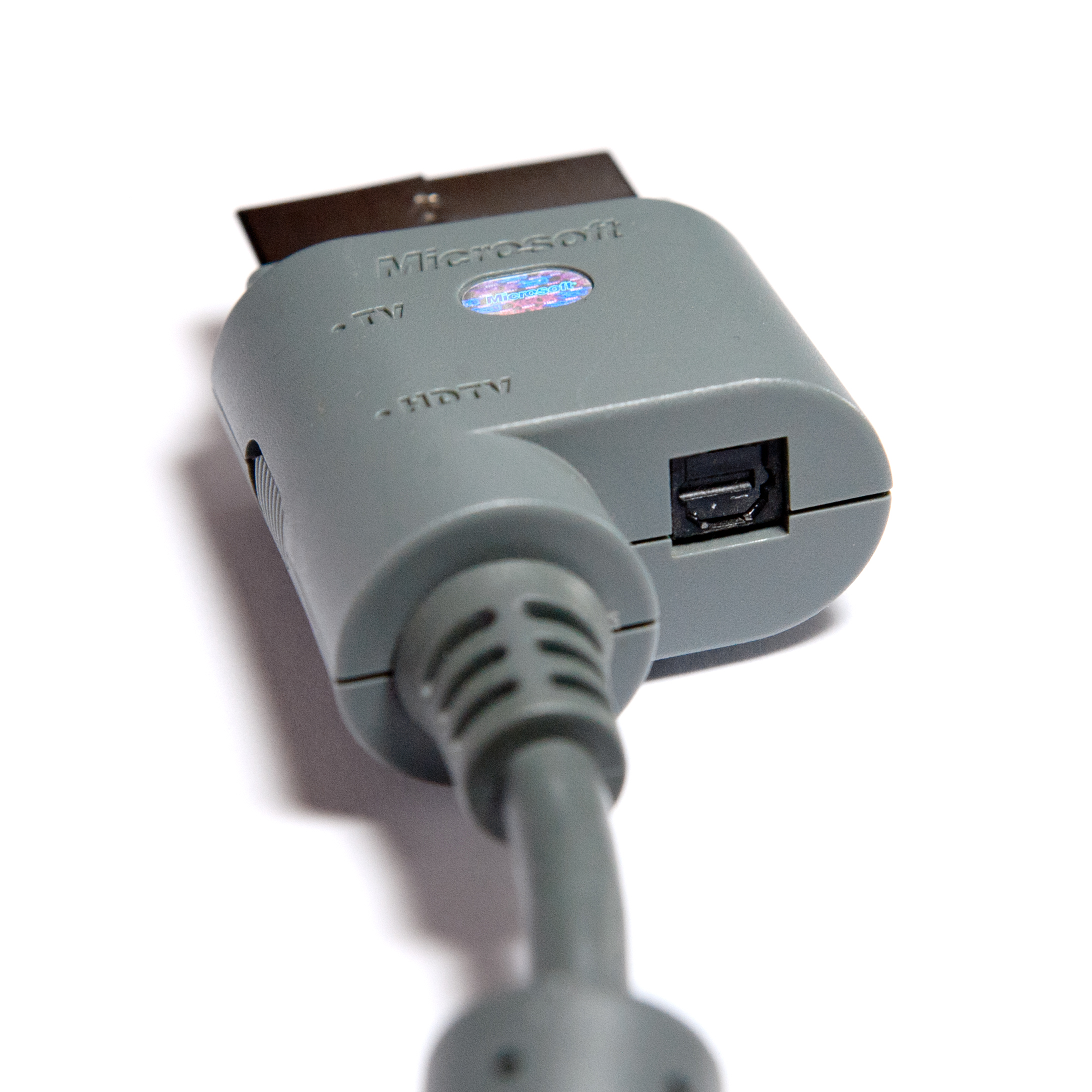 Rear of an Xbox 360 AV connector (in this case, of a hybrid Component/Composite cable), showing the TOSLINK S/PDIF-out connector.